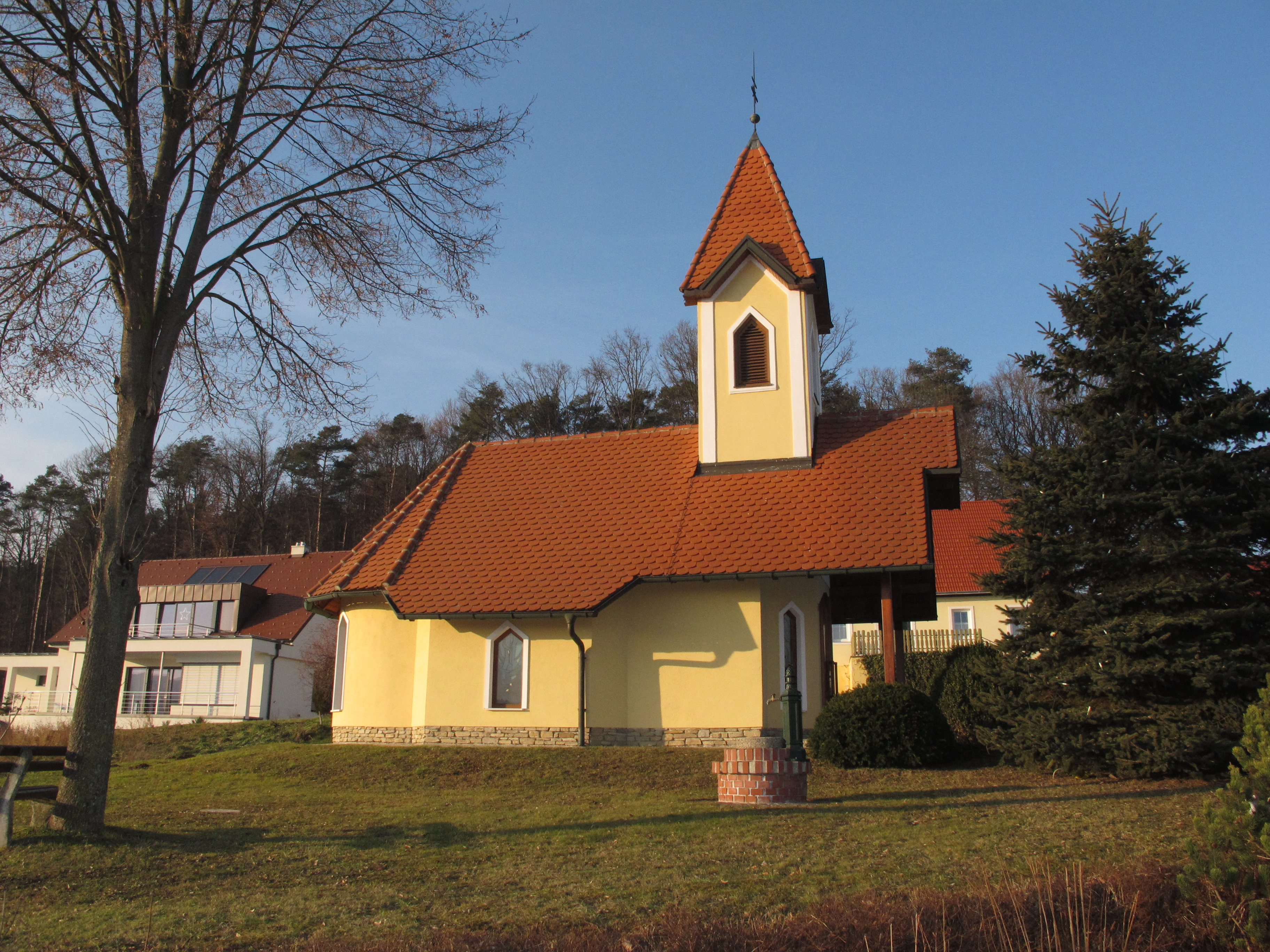 Kapelle Sebersdorf